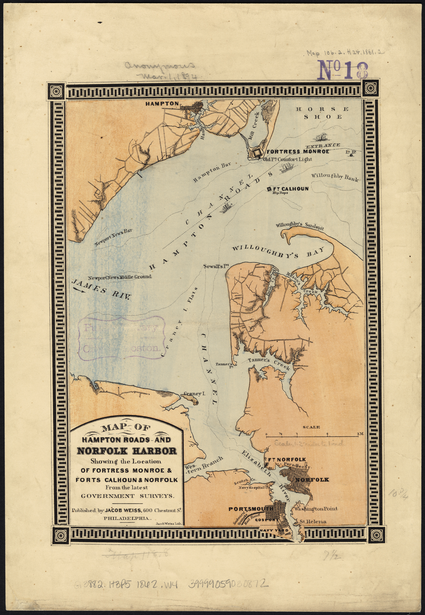 Zoom into this map at . Author: Weiss, Jacob Publisher: Weiss, Jacob Date: 1862 Location: Fort Calhoun (Va.), Fort Monroe (Va.), Fort Norfolk (Va.), Hampton Roads (Va. : Harbor) Dimension: 28 x 19 cm Scale: [ca. 1:160,000] Call Number: G3882.H3P5 1862 .W4